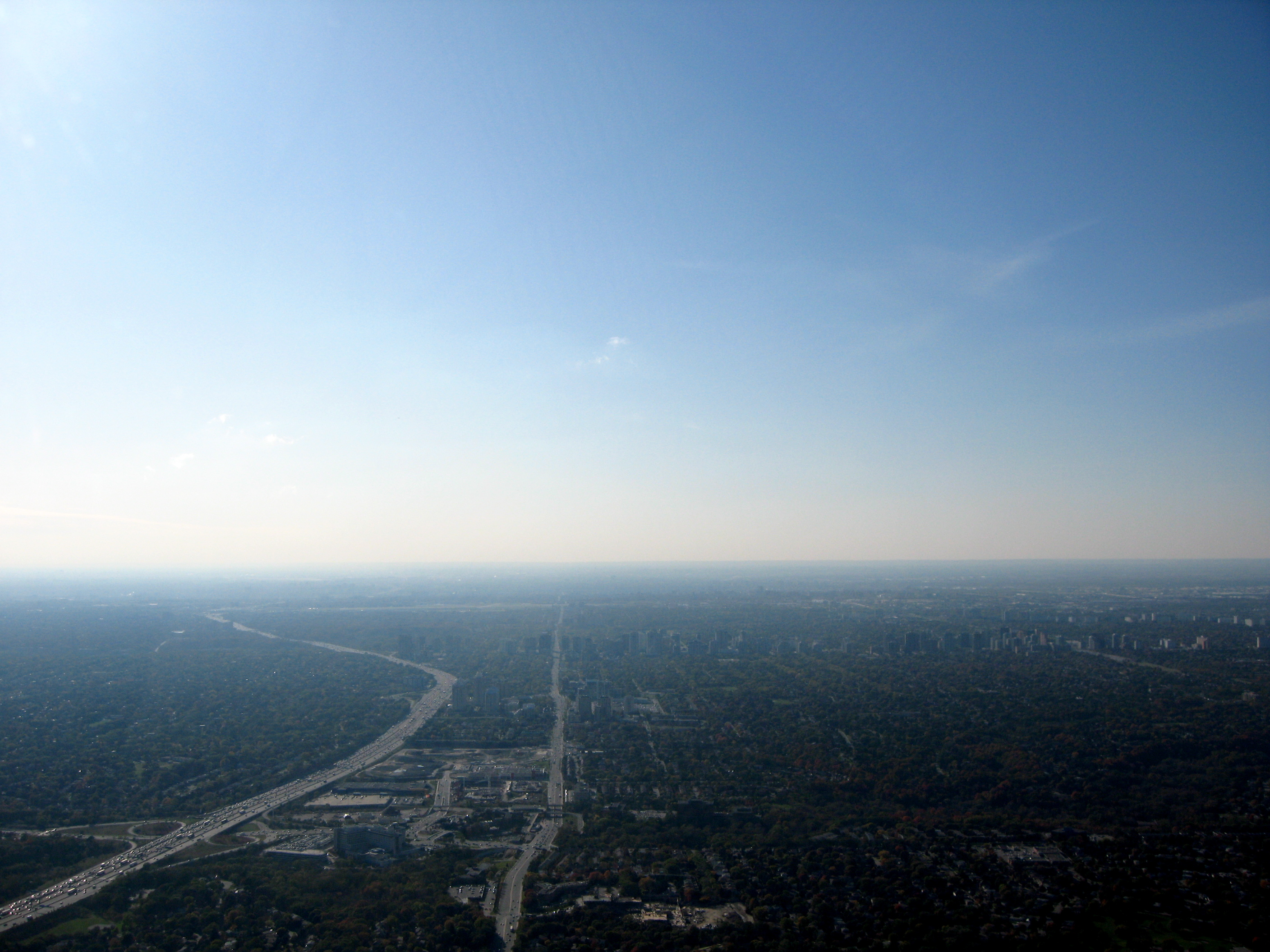 Shot of Highway 401 in Toronto near Leslie Street